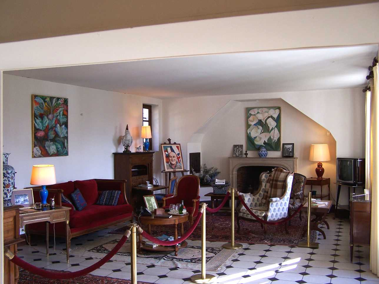 Jean Monnet's living room in Bazoches-sur-Guyonne (Yvelines, France)